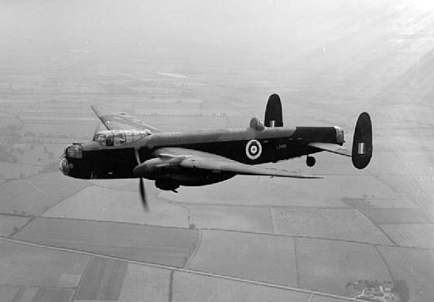 The Avro Manchester Mark IA, L7486, on an air test shortly after delivery to No 207 Squadron RAF at Waddington, Lincolnshire. It carried the code letters 'EM-P' and 'EM-Z' during its service with the Squadron.